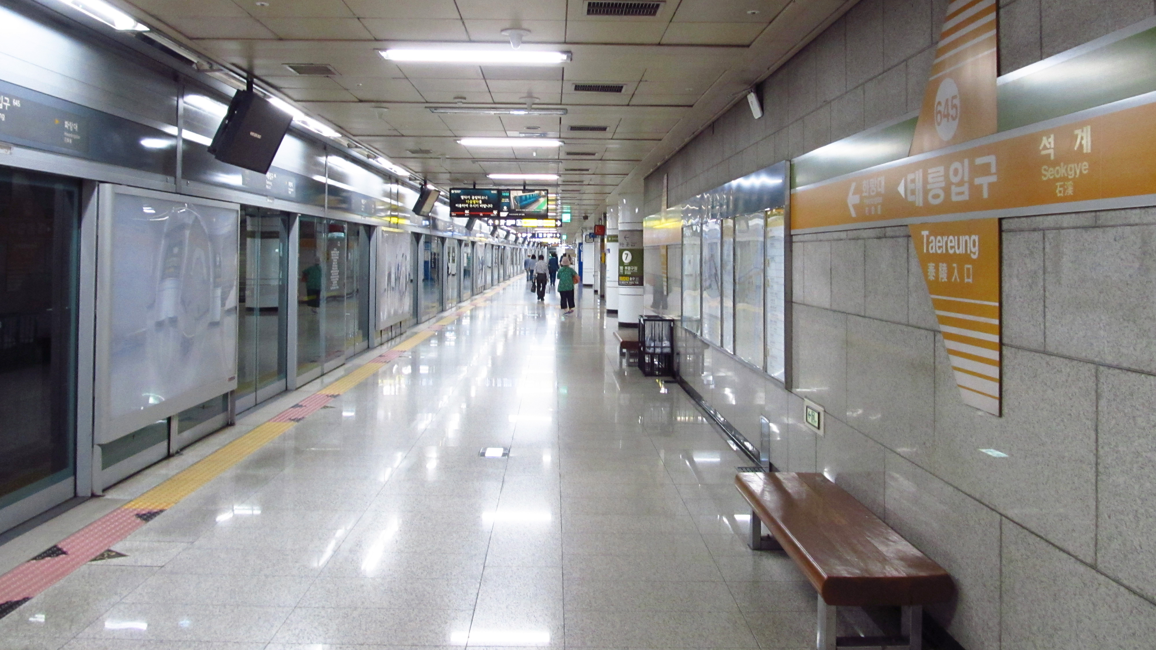 The platform at Taereung Station on Seoul Subway Line 6 in Nowon-gu, Seoul, Republic of Korea(South Korea)